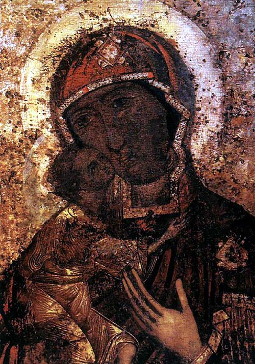 Theotokos of St. Theodore